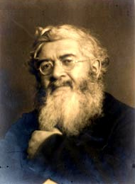 Catholic writer Giovanni Semeria (1867–1931).